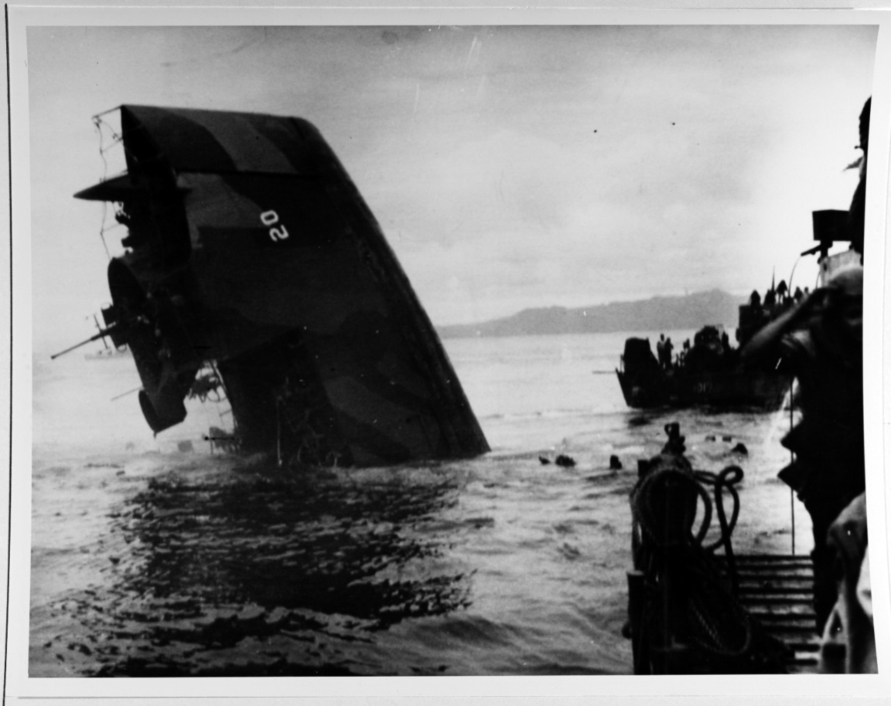 LSM 20 sinking in Surigao Straits, 5 December 1944. She was struck by a kamikaze amidships, killing 8 and wounding 9.